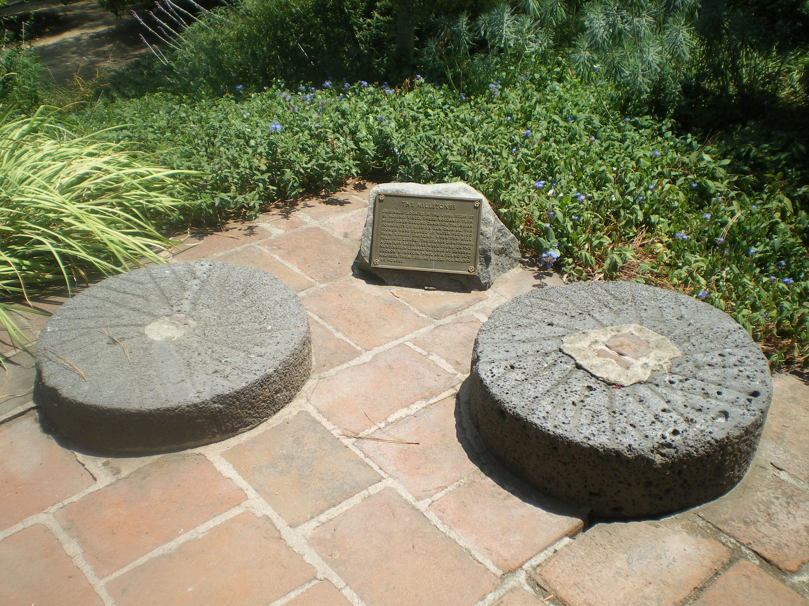 Millstones at El Molino Viejo, San Marino, California. 18th-century mill of Mission San Gabriel. Millstones returned by General George S. Patton from nearby estate.